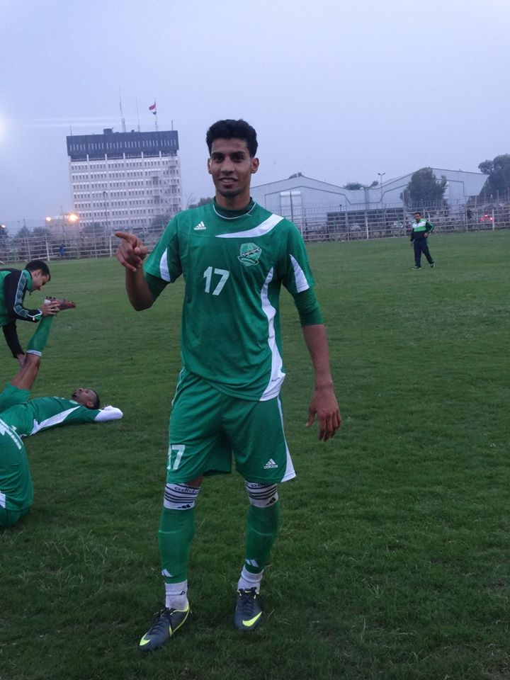 A photo of Ammar Abdul-Hussein at Al-Shorta Stadium in November 2013.